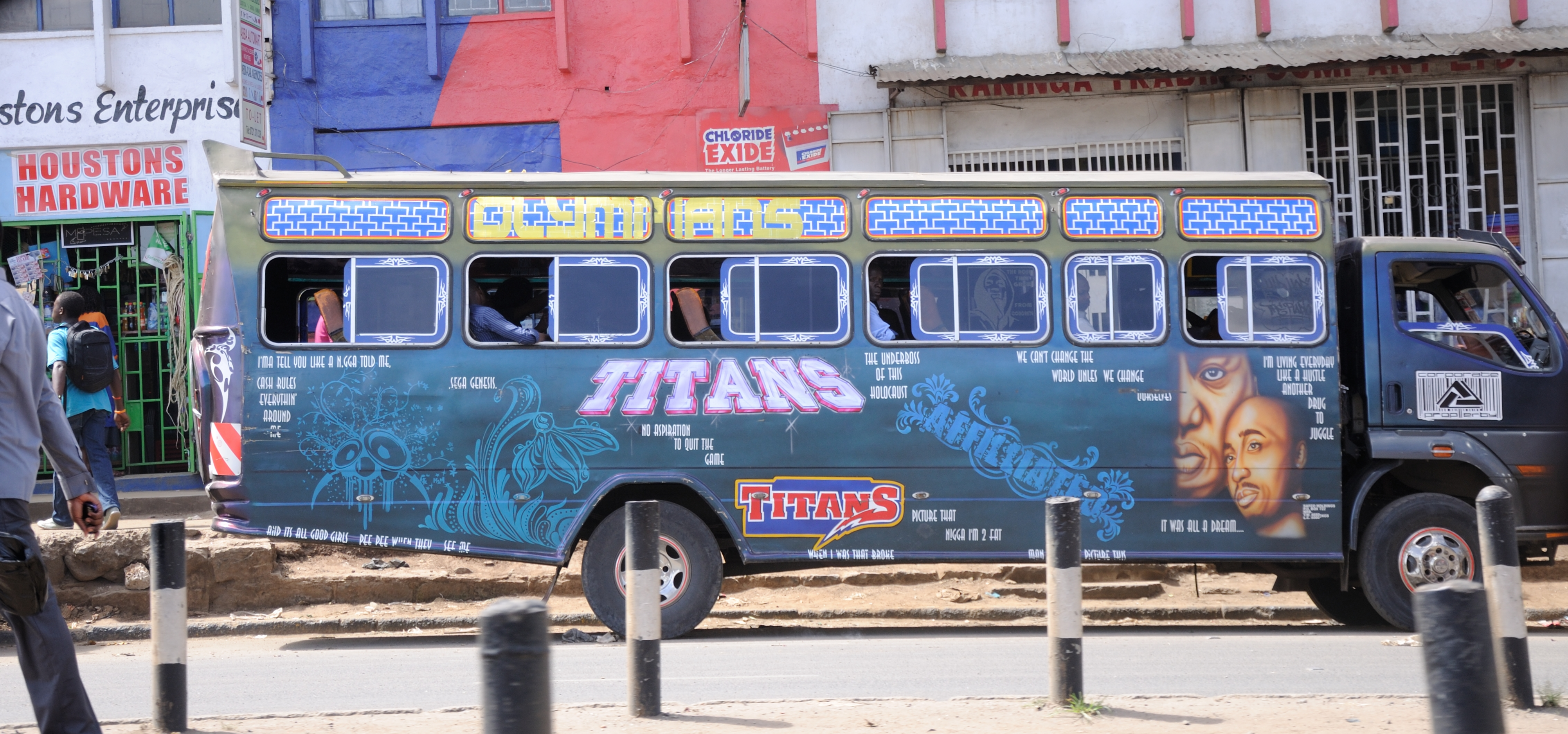 Kenya, car window impressions from Kenya